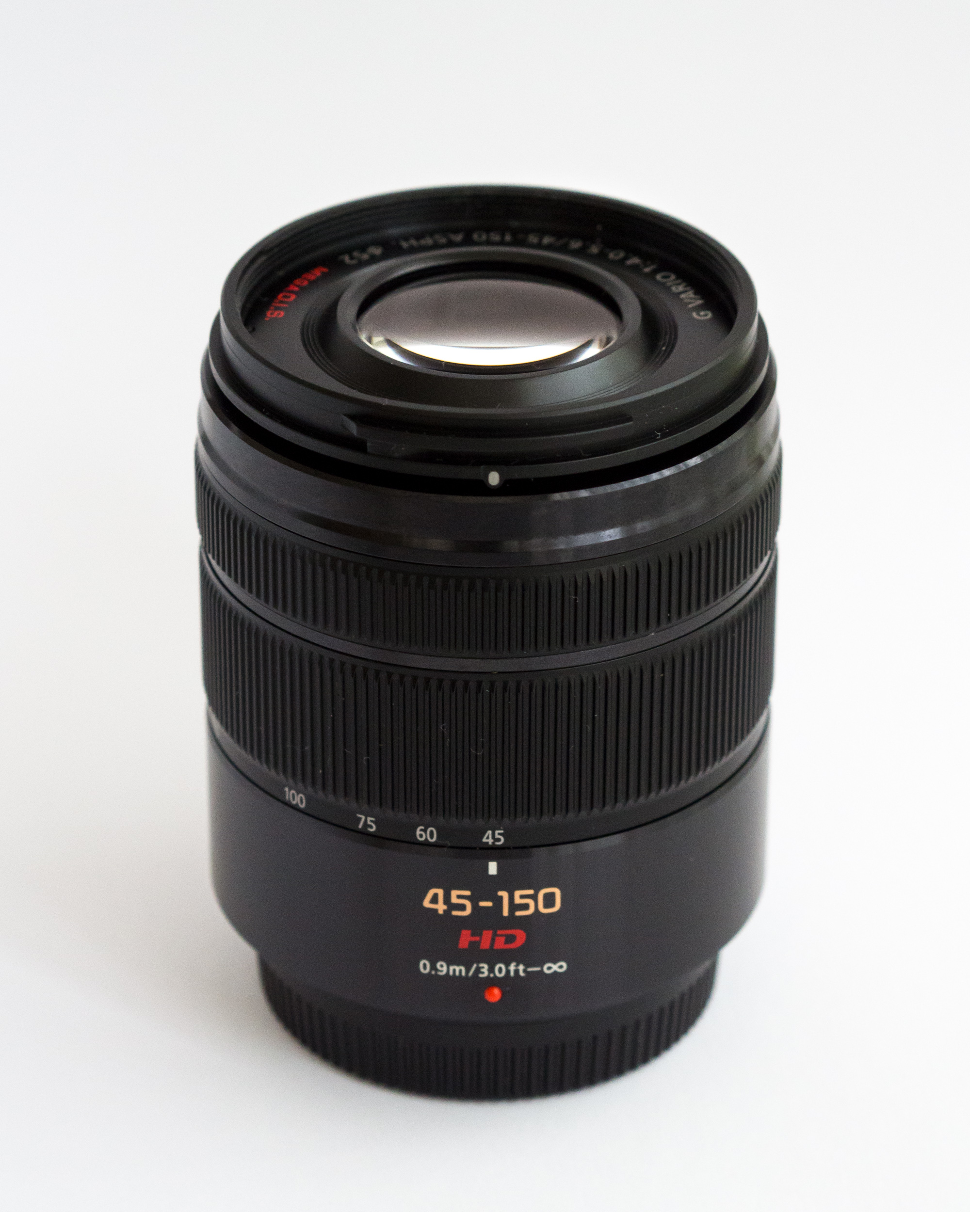 Panasonic Lumix G 45-150mm f/4-5.6 OIS set to 45mm